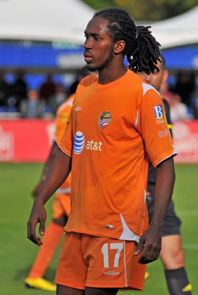 Photo of soccer player, Keon Daniel.